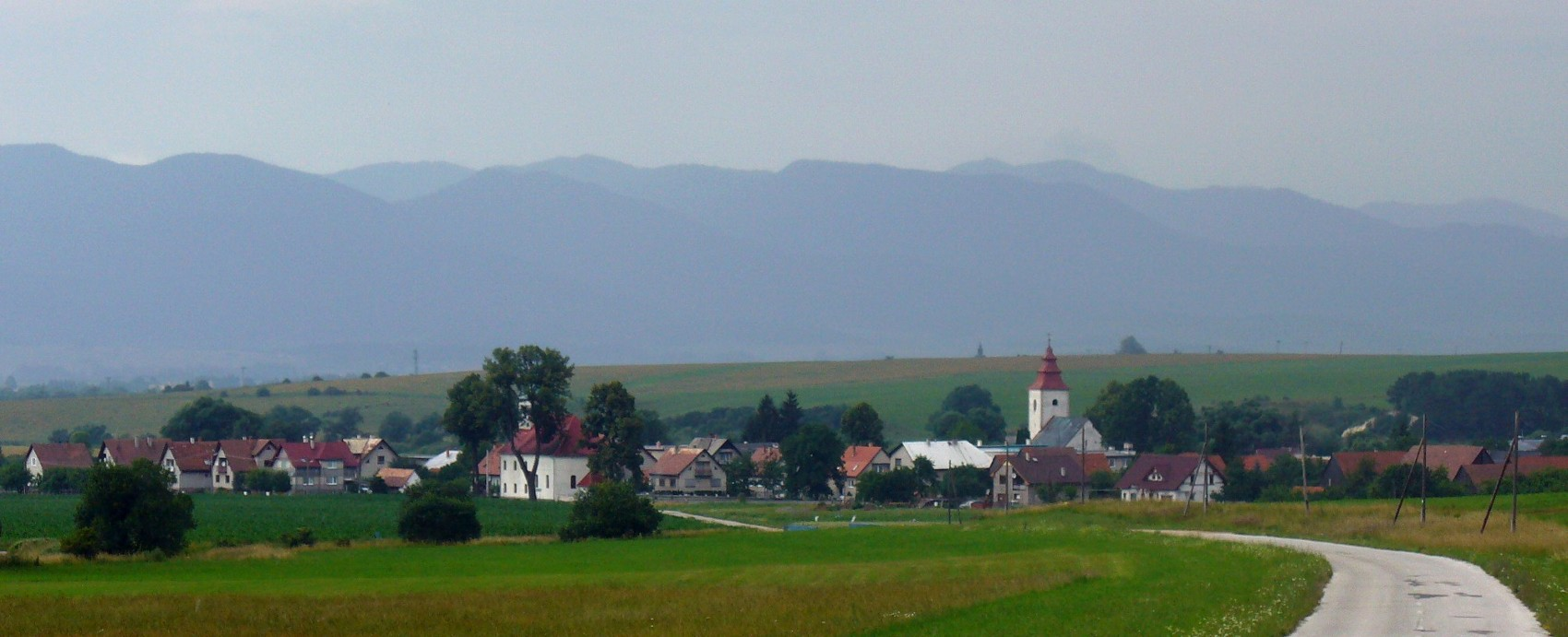 Village of Haj, Region Turiec, Slovakia.